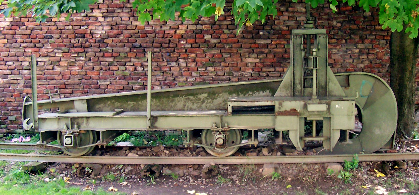 A railroad plough or Schienenwolf ('rail wolf') - (side view). Taken at the Belgrade Military Museum.